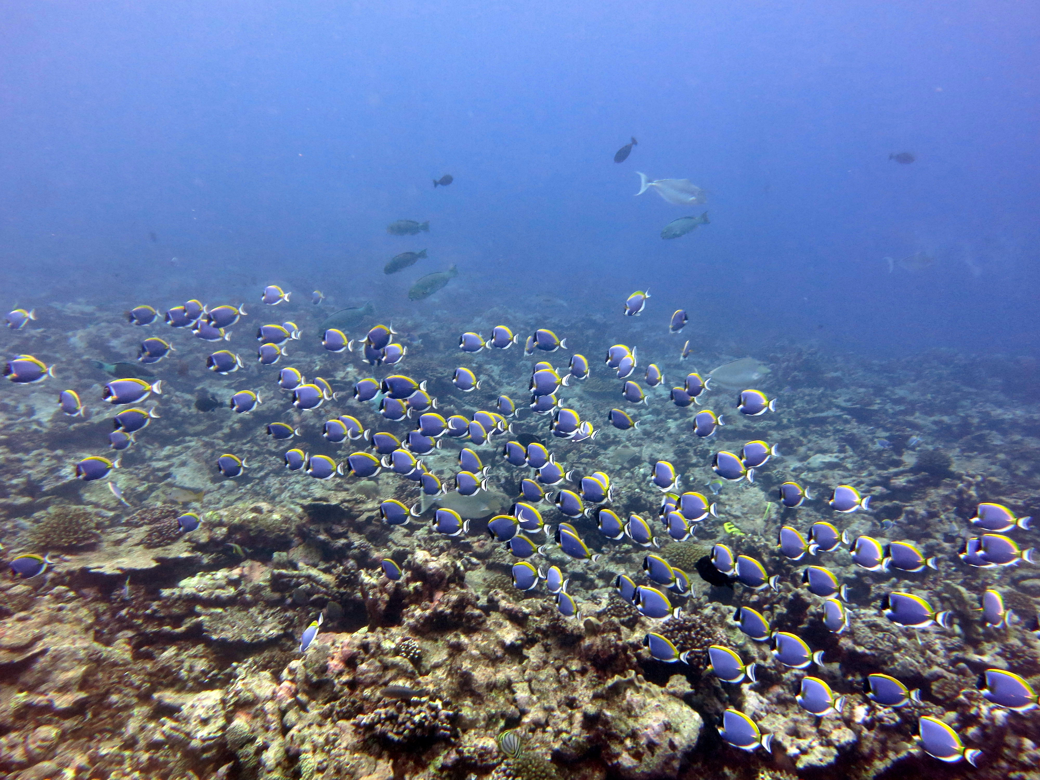 Underwater images from the Lakshadweep atolls.